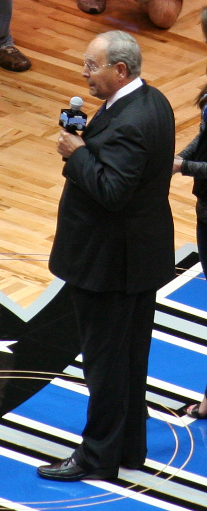 Magic owner Rich DeVos welcoming fans and thanking the City of Orlando for their support of the franchise before the Magic's first regular season home game in the new arena.